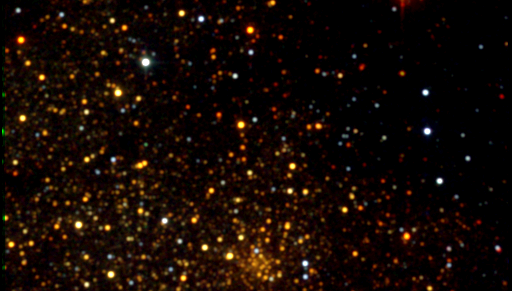 Color rendering is done by by Aladin-software (2000A&AS..143...33B.)